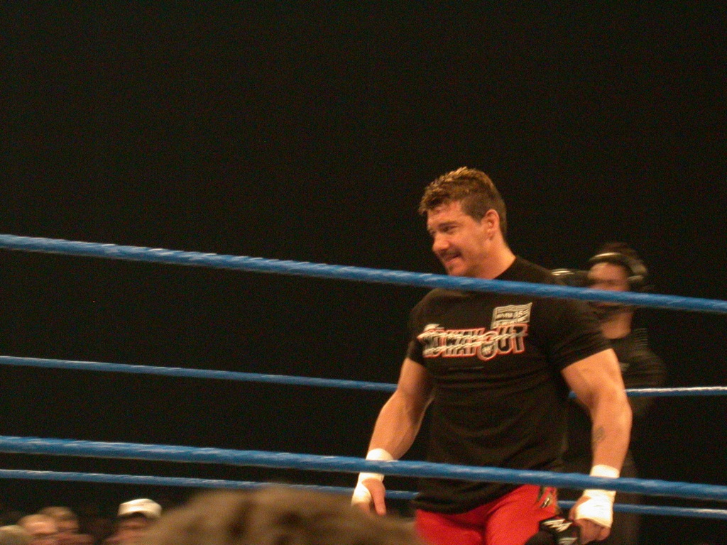 Eddie Guerrero at a SmackDown! taping in Tacoma, WA on February 10, 2004.DSCN6696.JPG